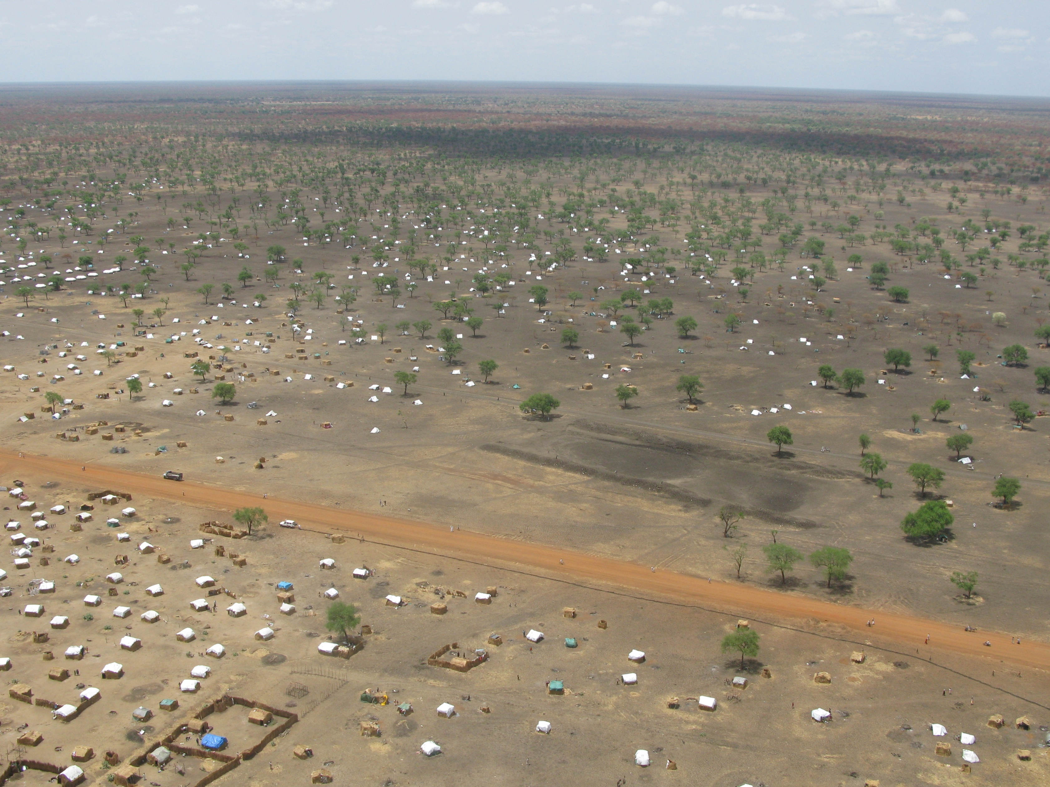 Aerial photograph of just one part of the Jamam camp in South Sudan, where some 36,000 people have fled to, following fighting near the border of Sudan's Blue Nile State, and South Sudan's Upper Nile State in the Greater Upper Nile region. Conditions are harsh and access to water is difficult, although aid agencies including UNHCR, Oxfam and Medecins Sans Frontieres are managing to make sure people receive an average of 6.5 litres of water a day – enough to meet basic needs. Image: Robert Stansfield/Department for International Development Terms of use This image is posted under a Creative Commons - Attribution Licence, in accordance with the Open Government Licence. You are free to embed, download or otherwise re-use it, as long as you credit the source as 'Robert Stansfield/Department for International Development'.